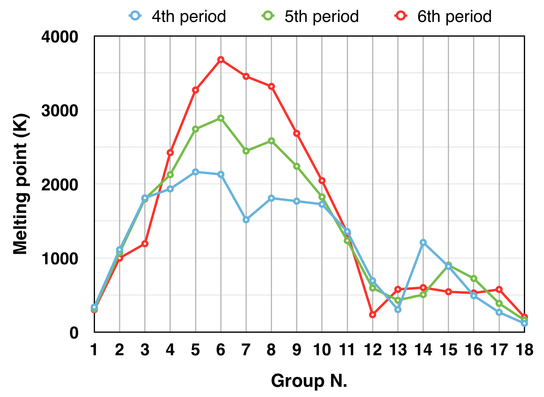 Melting point (K) of the elements in periods 4-6 of the periodic table